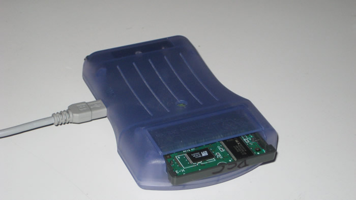 This is a Visoly flash linker, which can be used to dump ROMs from Game Boy Advance cartridges. I took this photo myself.